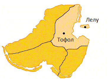 Map of Lelu Minicipality, Kosrae, Micronesia in Macedonian.